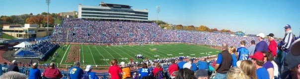 This is panoramic picture that I took on 11/1/2008